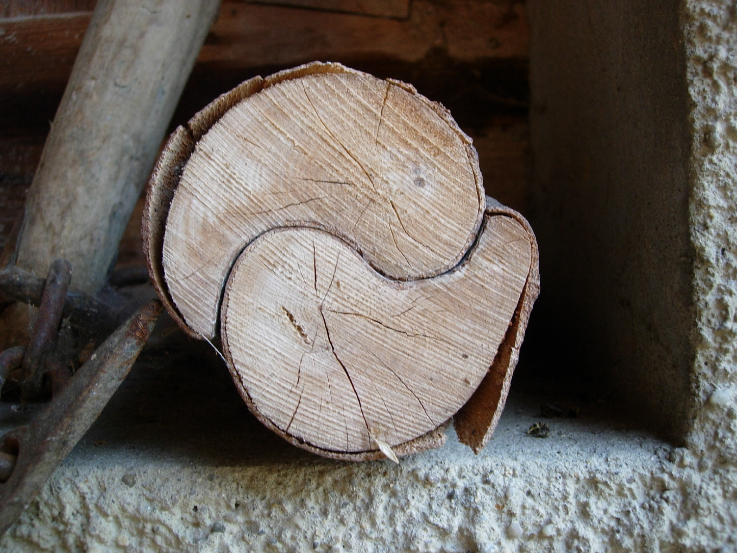 Naturally grown wood in the yin-yang shape, found on a farm in the Swabian Alps, southern Germany